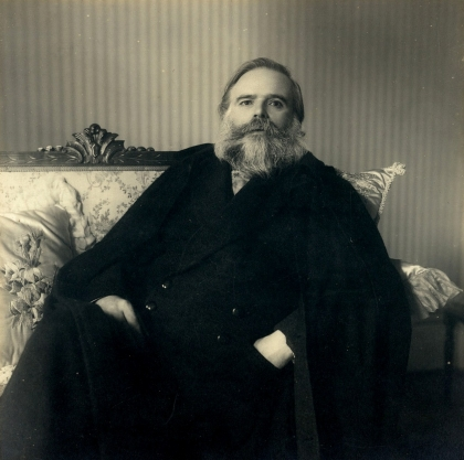 António José de Almeida